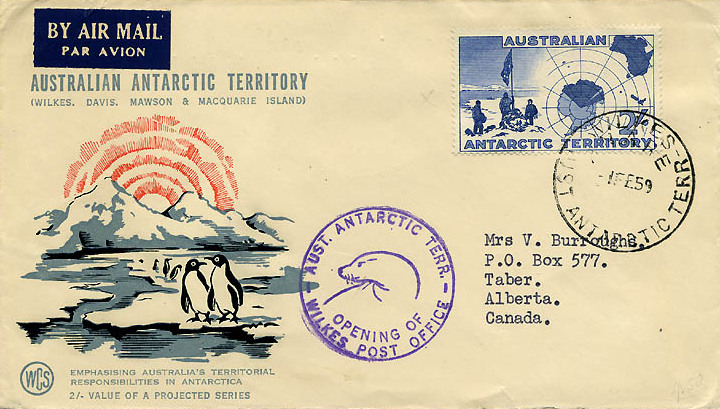 1959 cover from Australian Antarctic Territory, scanned by User:Stan Shebs.